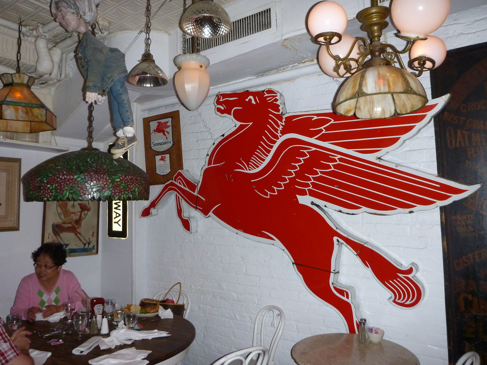 Mobil Oil Pegasus logo on the wall of Serendipity 3 restaurant in New York